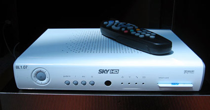 De: Sky Box HD von Pace. Set-top Box wird mit dem Abonnement von Sky HD ausgeliefert. En: Sky Box HD Pace, which is distributed with a Sky HD abonnement. It: Sky Box HD Pace distribuito da Sky HD.